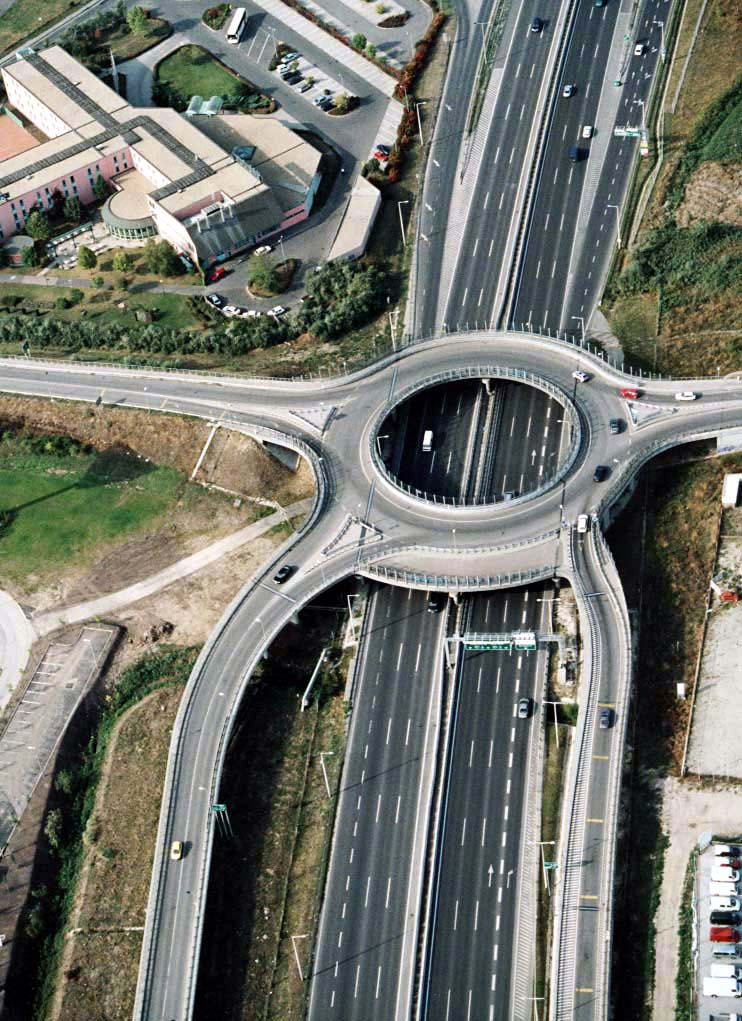 Highway drive-up with roundabout bridge in Budaörs (Károly Király utca), near Budapest/Hungary. Highway M1/M7 to Budapest.